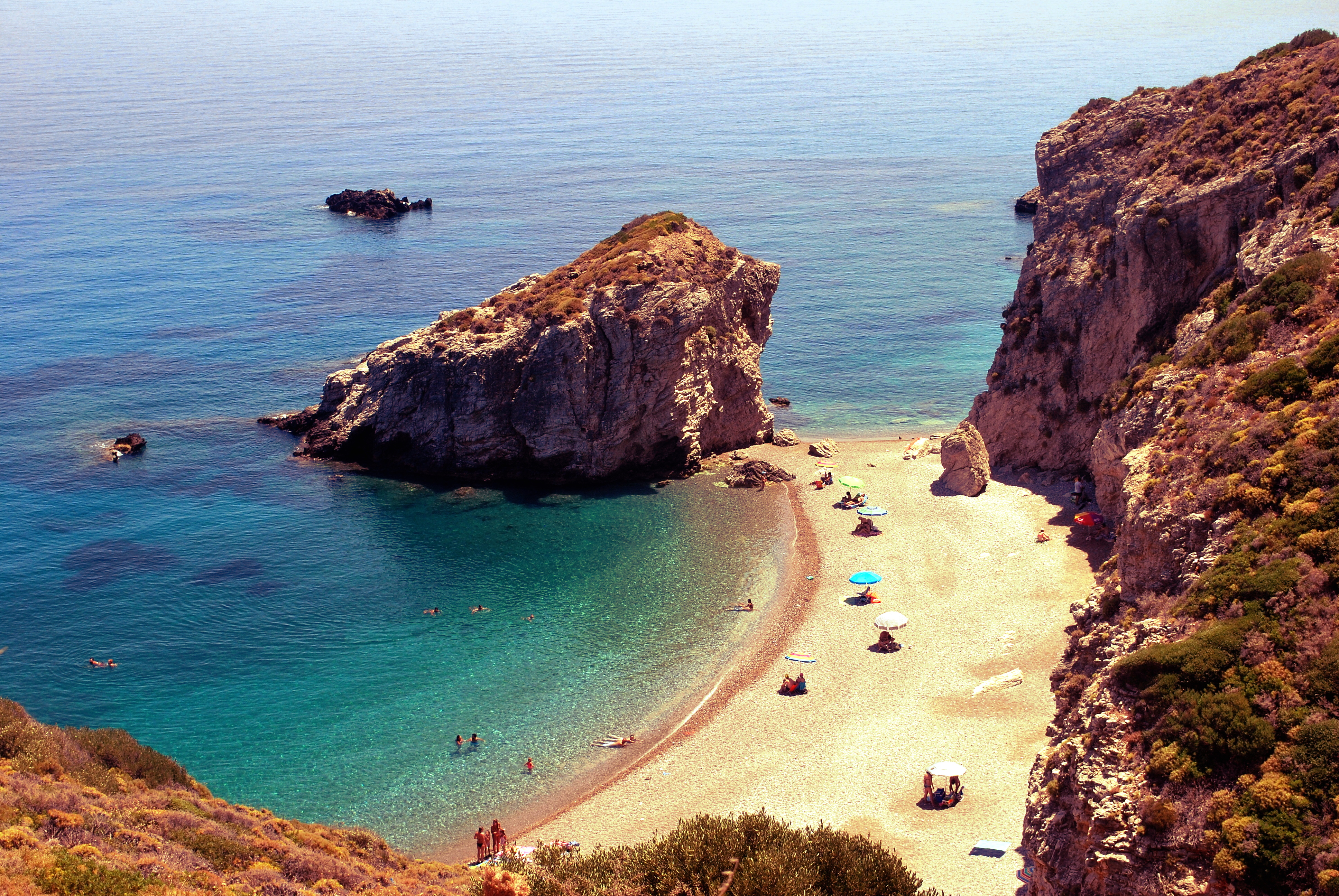 Beach at the east of Cythera